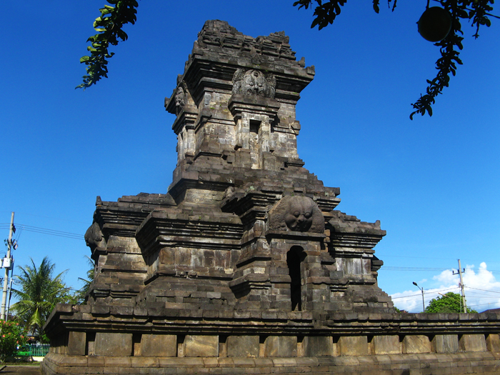 Singosari temple at Singosari, East Java, Indonesia